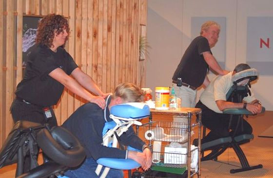 Chair massage at Novell BrainShare 2007.